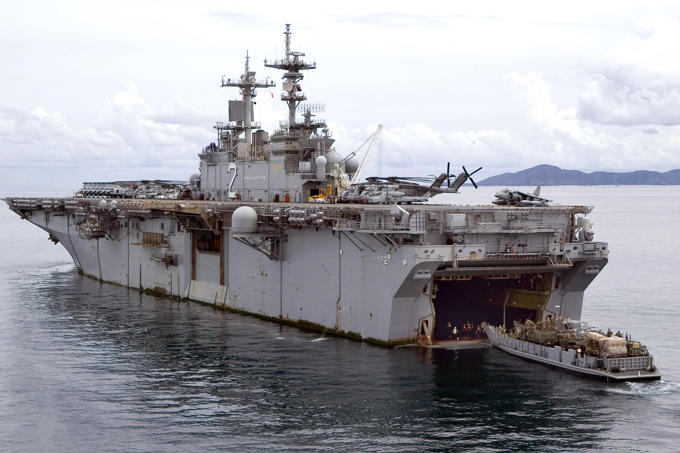 The forward-deployed amphibious assault ship USS Essex (LHD 2) performs a stern-gate marriage with Landing Craft Utility (LCU) 1631, assigned to Assault Craft Unit (ACU) 1 while back loading elements of the 31st Marine Expeditionary Unit while off the coast of Thailand after completing Cobra Gold 2008 (CG08) June 9, 2008. CG08 is a Thai/U.S.-sponsored military exercise designed to enhance interoperability between joint U.S. forces and the combined forces of U.S., Thai, Singaporean, Japanese and Indonesian military. Essex is the lead ship of the only forward-deployed U.S. Expeditionary Strike Group and serves as the flagship for CTF 76, the Navy's only forward-deployed amphibious force commander. Task Force 76 is headquartered at White Beach Naval Facility, Okinawa, Japan, with a detachment in Sasebo, Japan. (U.S. Navy photograph by Mass Communication Specialist Seaman Kari R. Bergman/Released)